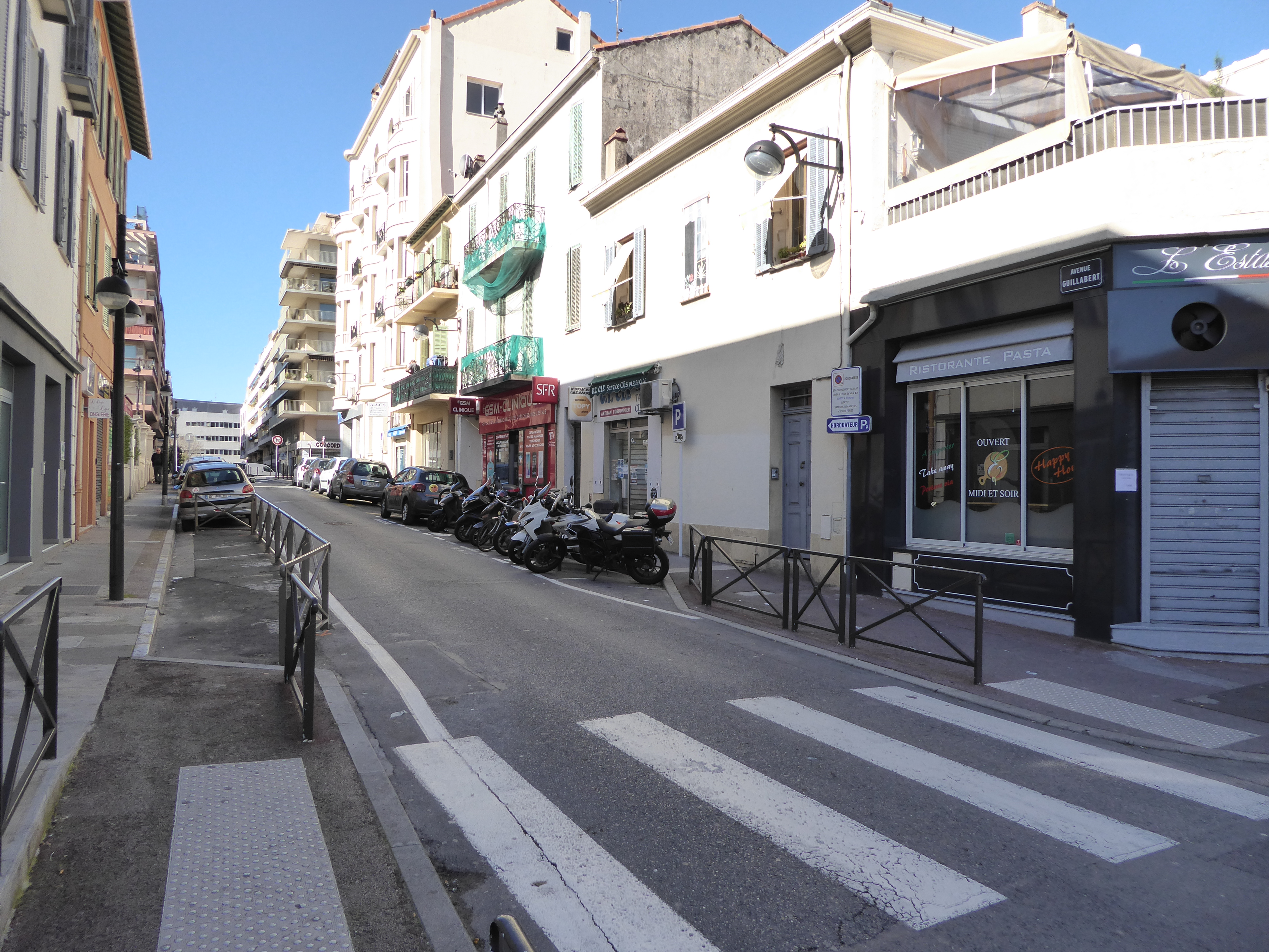 av Guillabert